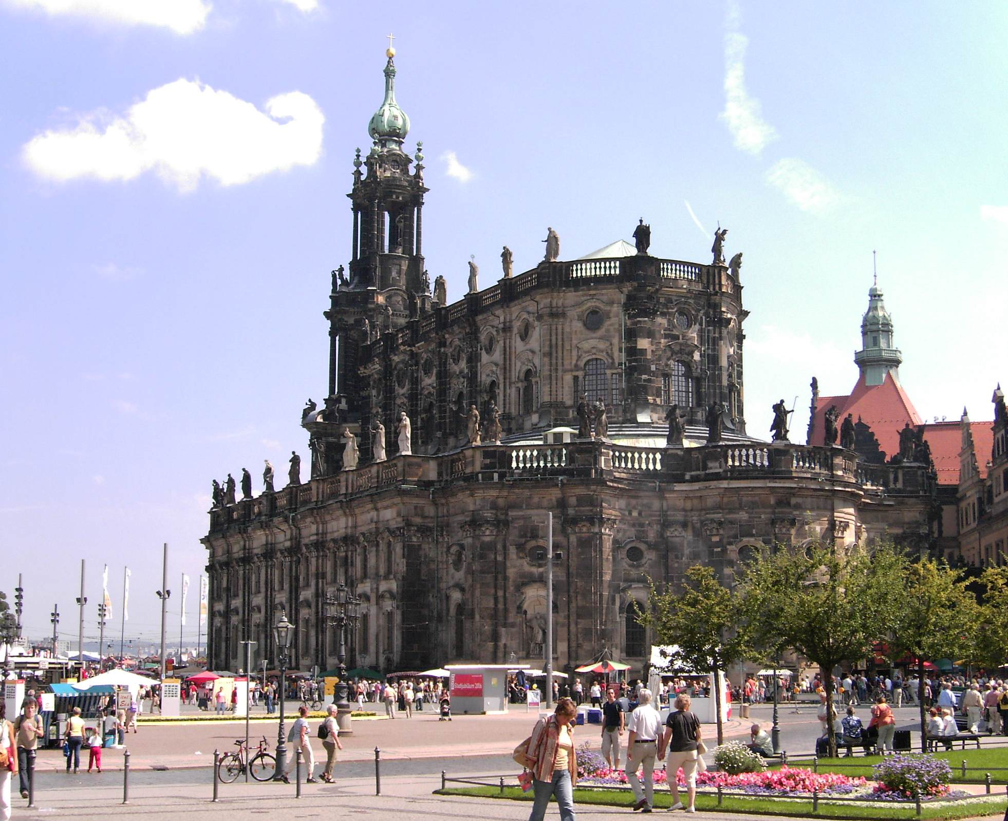 Dresden. Hofkirche (church of the royal court), catholic church.